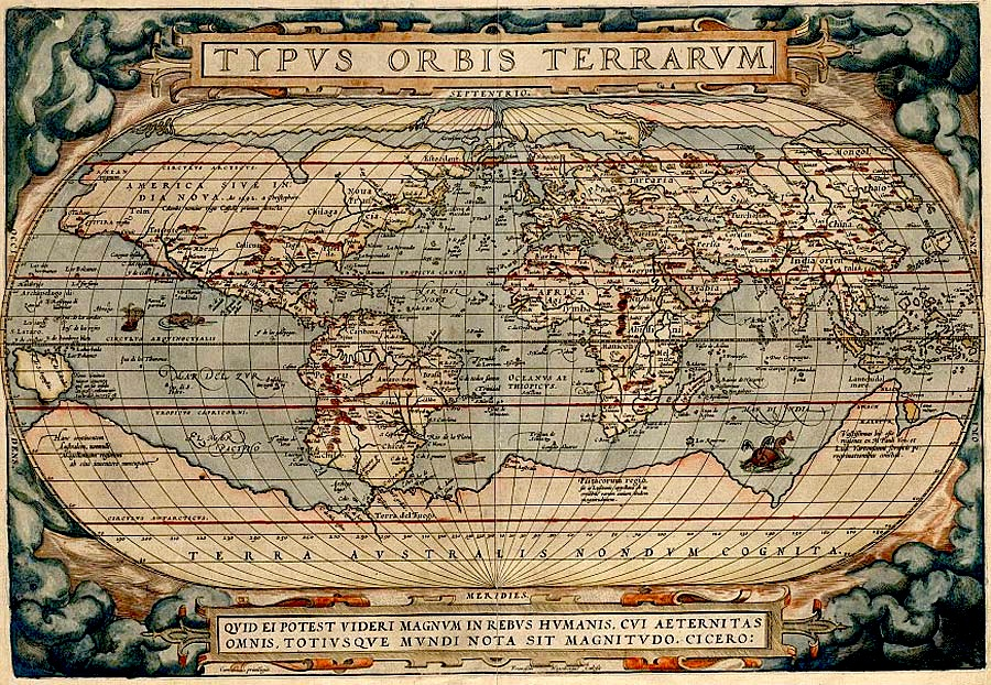 Typus Orbis Terrarum, include the Terra Australis Drawn by the cartographer Abraham Ortelius(1527-1598) around 1570.